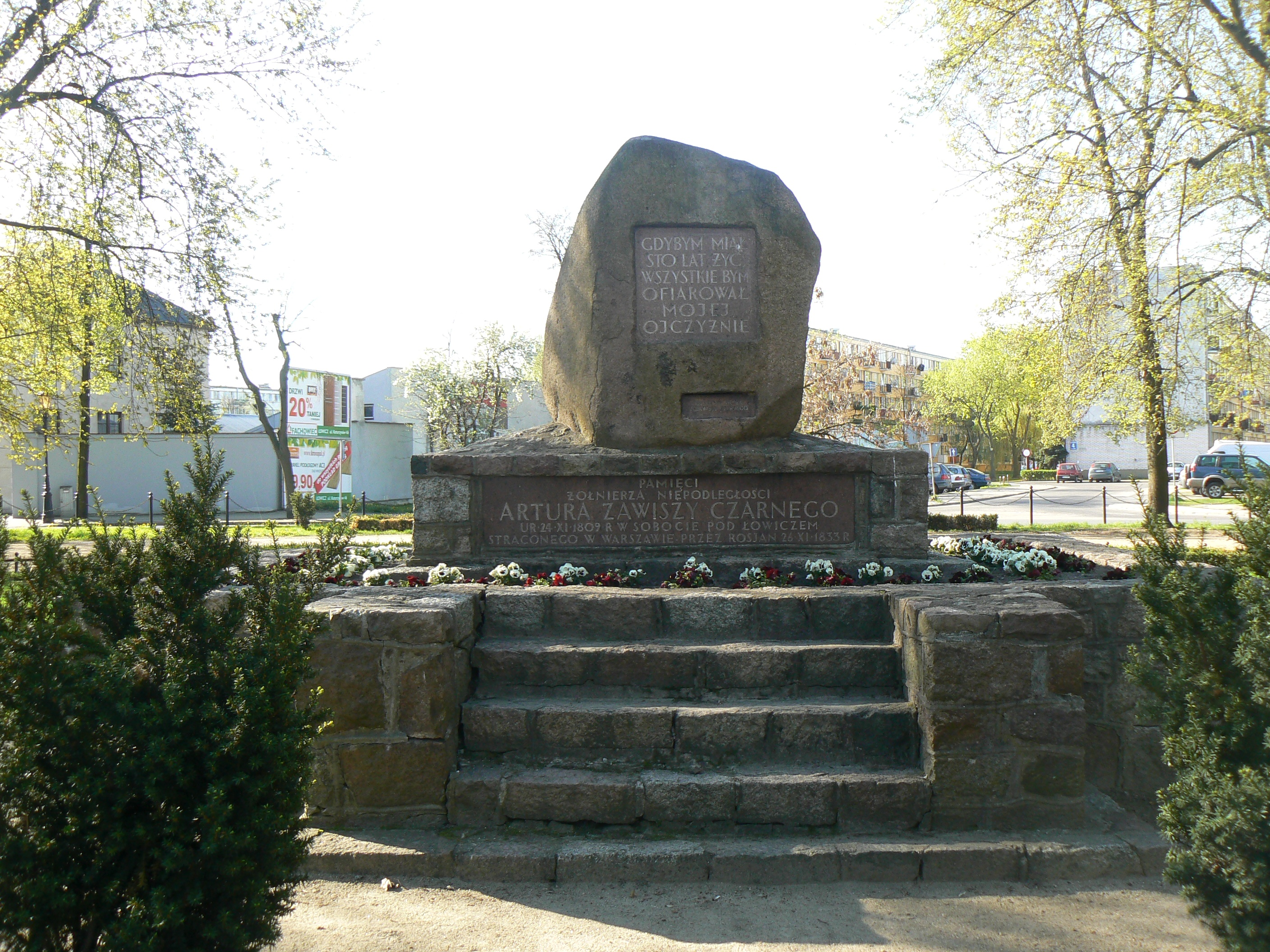 Memorial stone commemorating the Artur Zawisza Czarny in Łowicz.